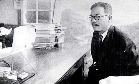 Chairman of Boseong Callege, Kim Seong-soo